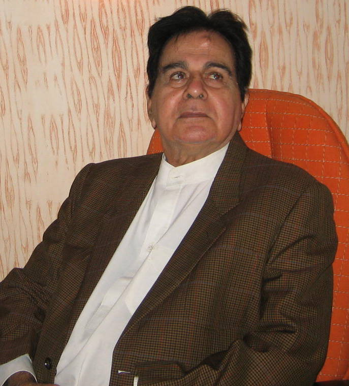 Dilip Kumar, I took this picture when he paid a visit last year (2006) to the company I was working for. It is a rare picture as it is extremely difficult to get his latest pictures.